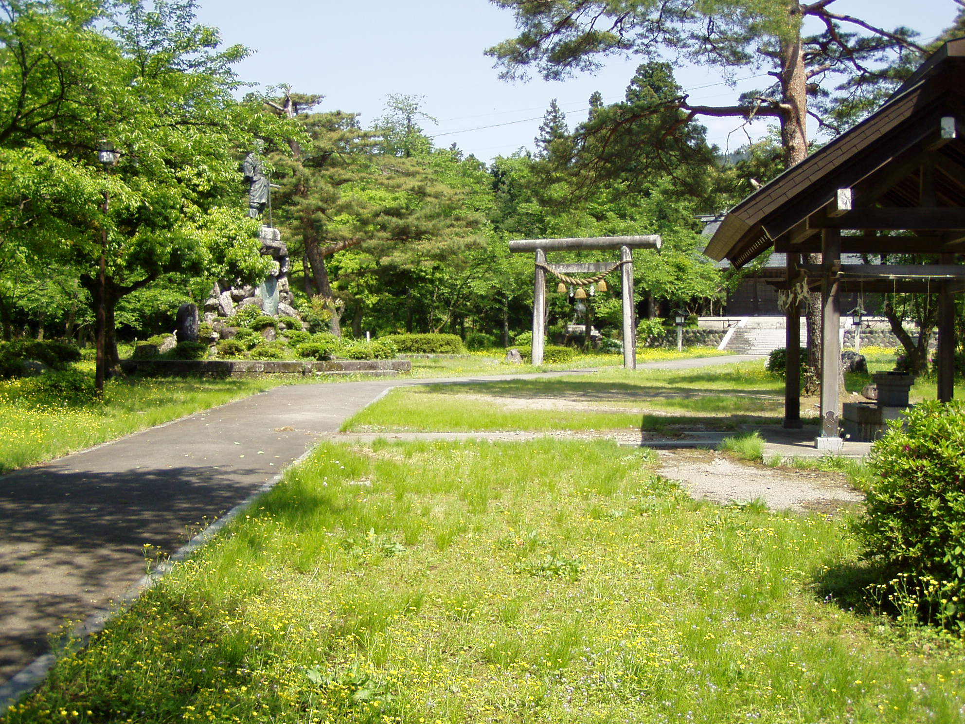 Inami Castle（Toyama-Japan）